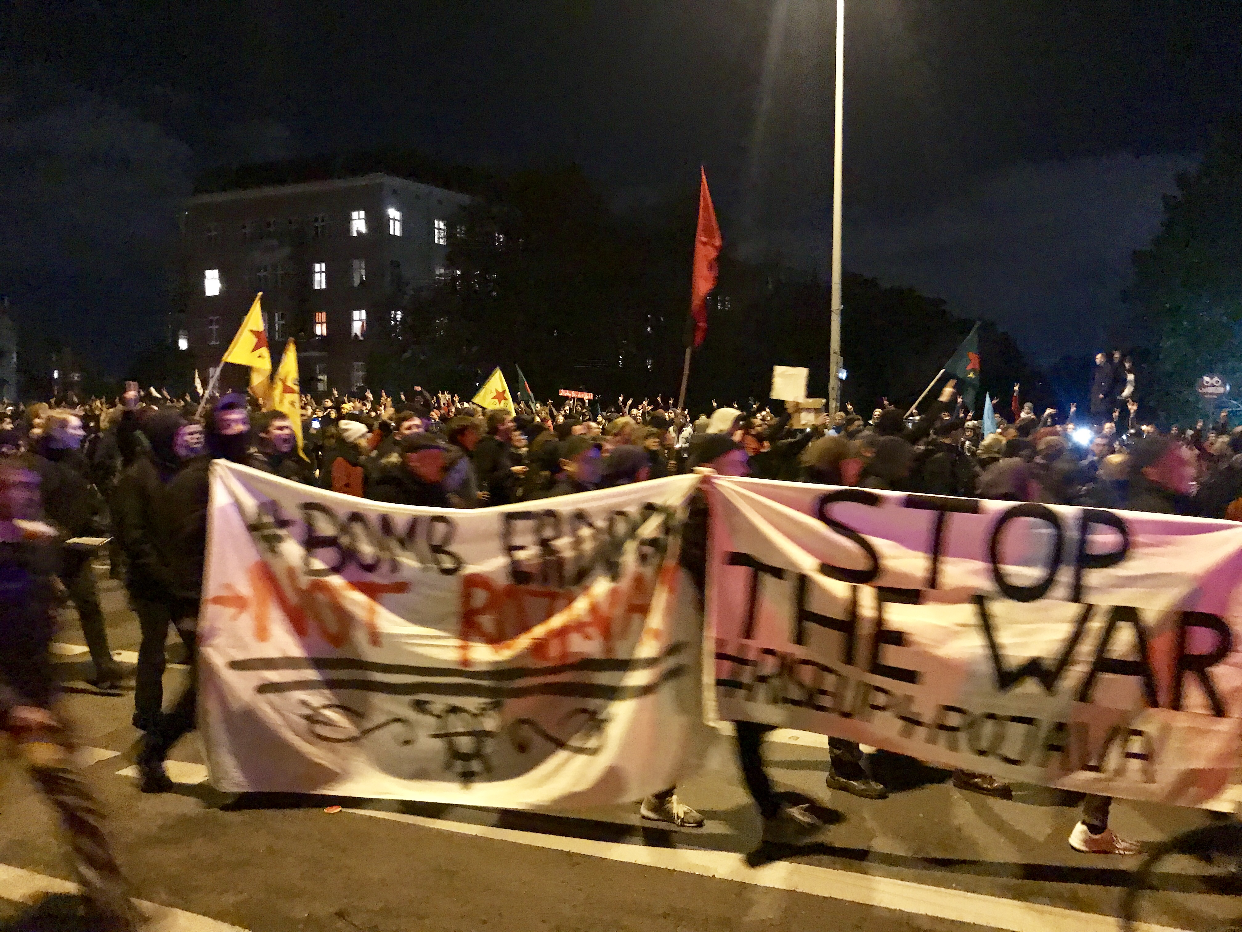 Riseup4Rojava Berlin 2019-10-10